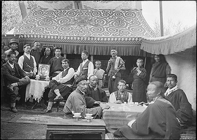 A group of Nepalese on a picnic near Lhasa.